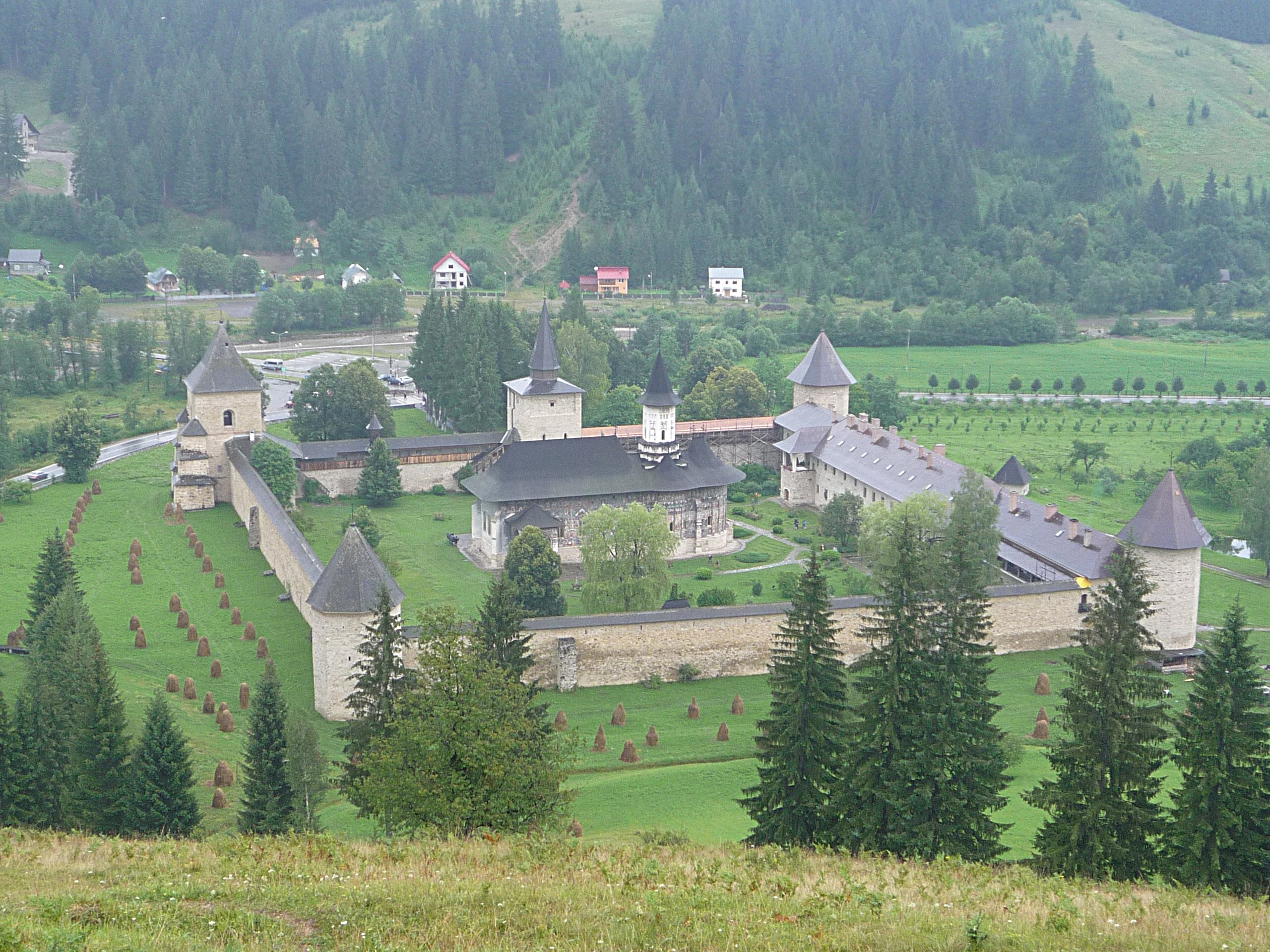 View of Suceviţa Monastery